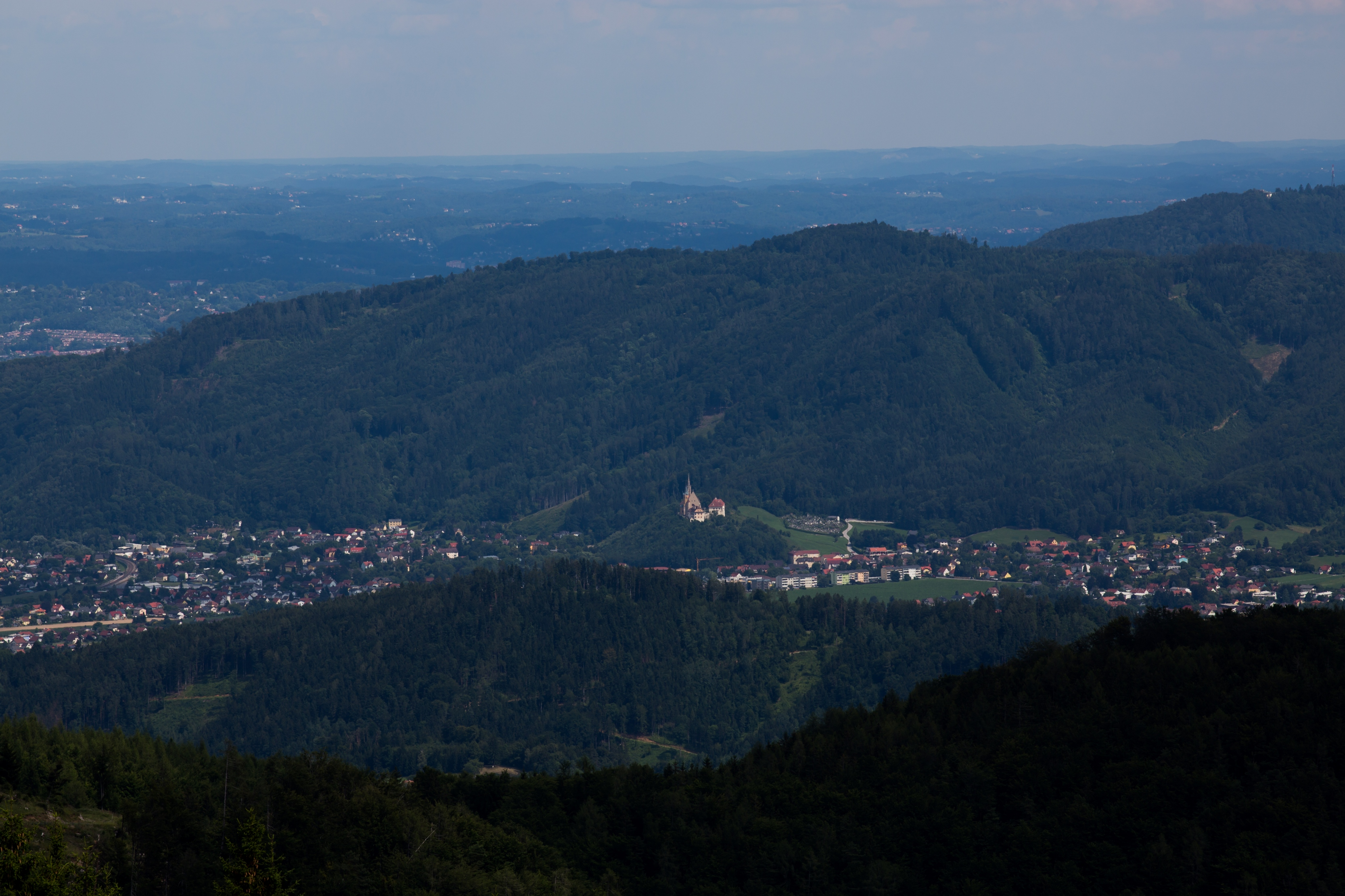 Judendorf-Straßengel north of Graz, Styria, Austria Gratwein-Straßengel